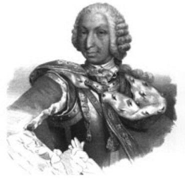 Charles Emmanuel III, King of Sardinia (1701-1773)